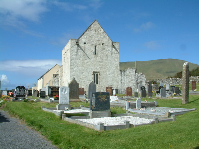 Abbey at Clare Island. Abbey at Clare Island